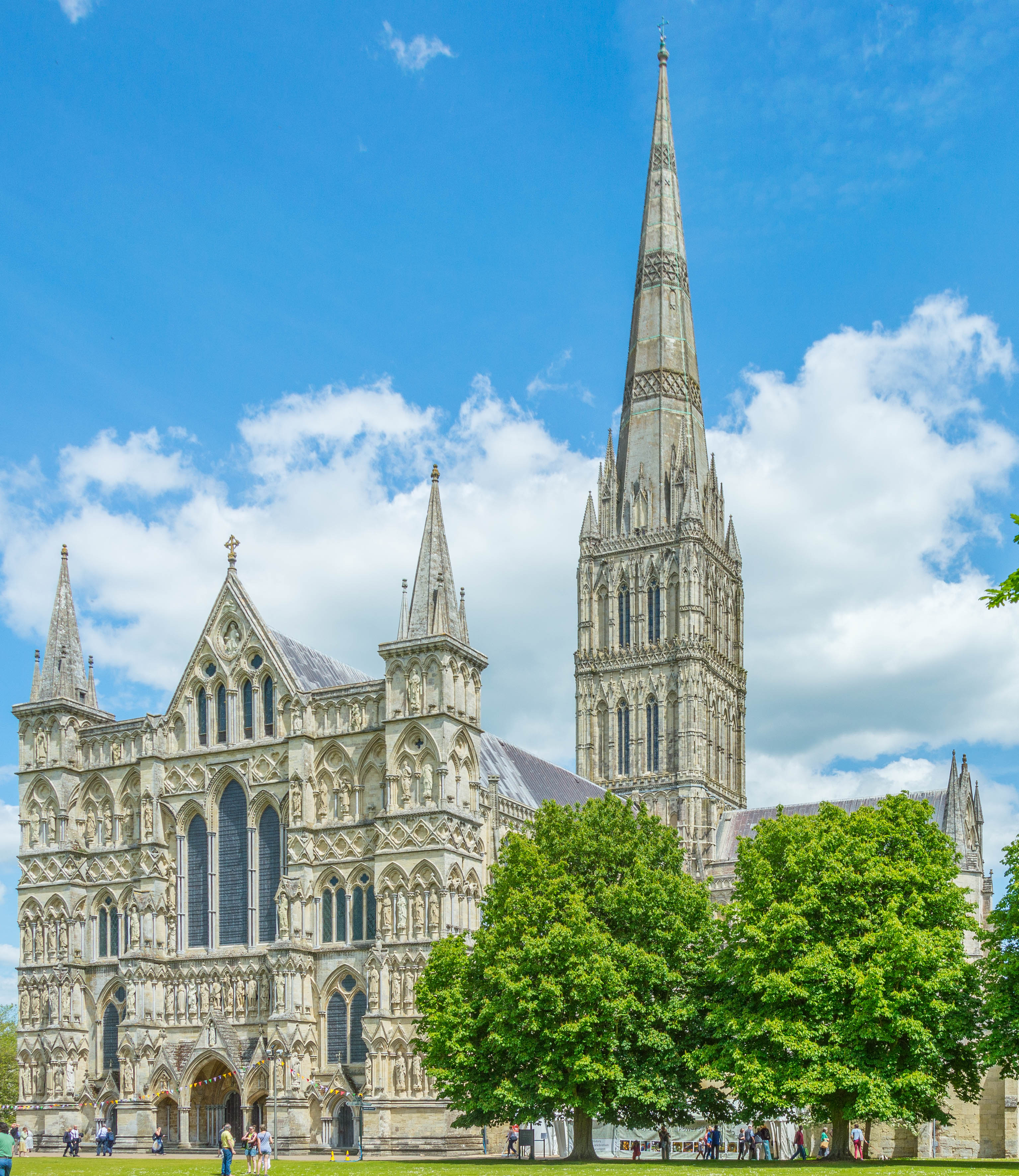 The huge Cathedral seen on a hot June day